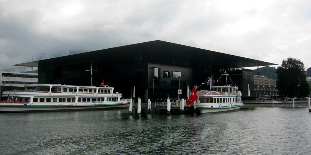 Luzern, Switzerland: KKL congress and concert hall, by Jean Nouvel. Seen from Lake Lucerne.